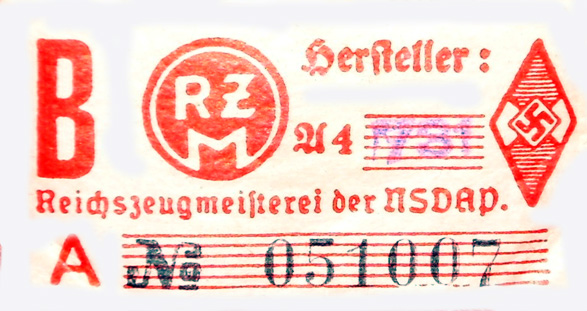 Reichszeugmeisterei (RZM) label from a Hitler Youth armband (mine)